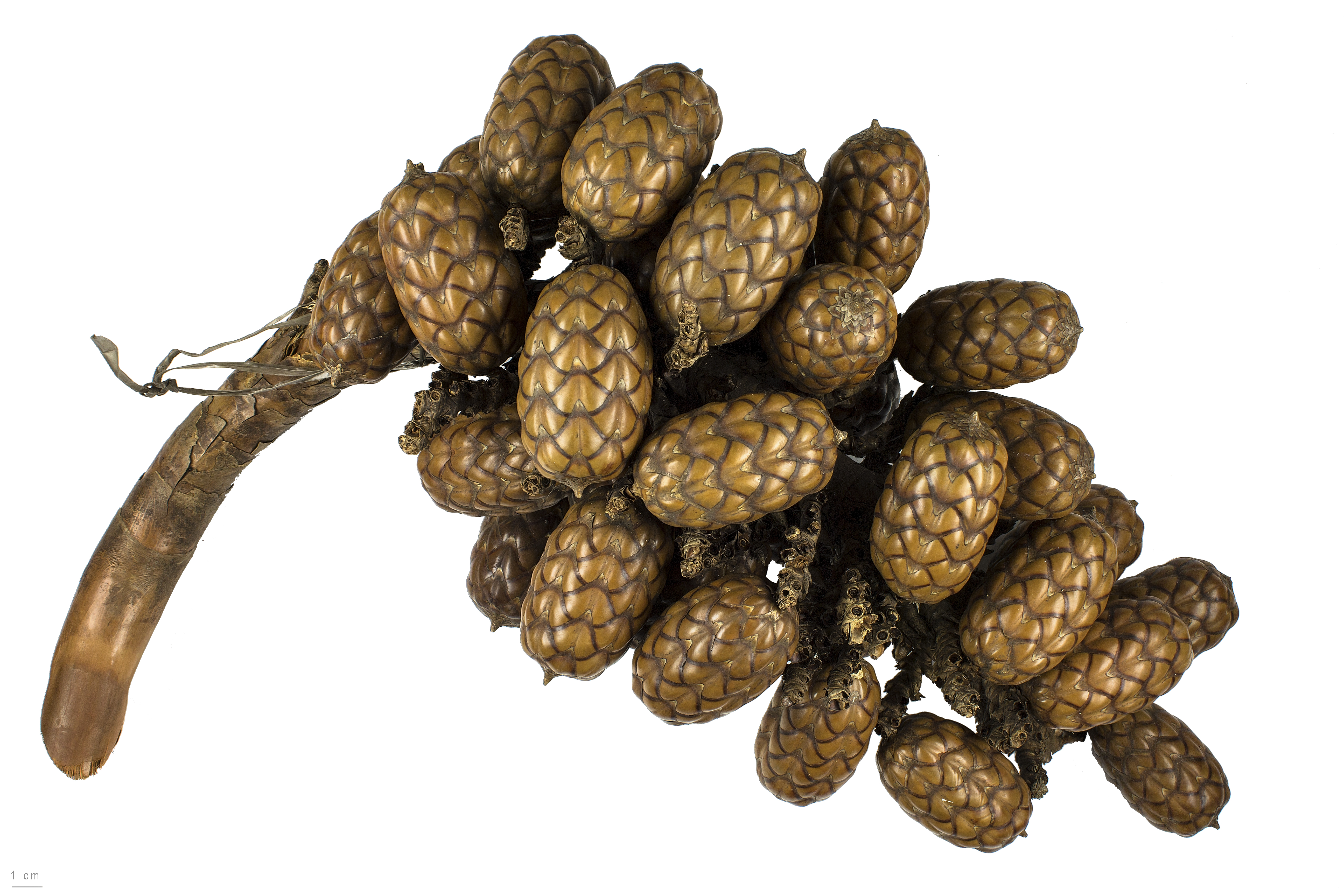 Raphia taedigera , fruits and seeds